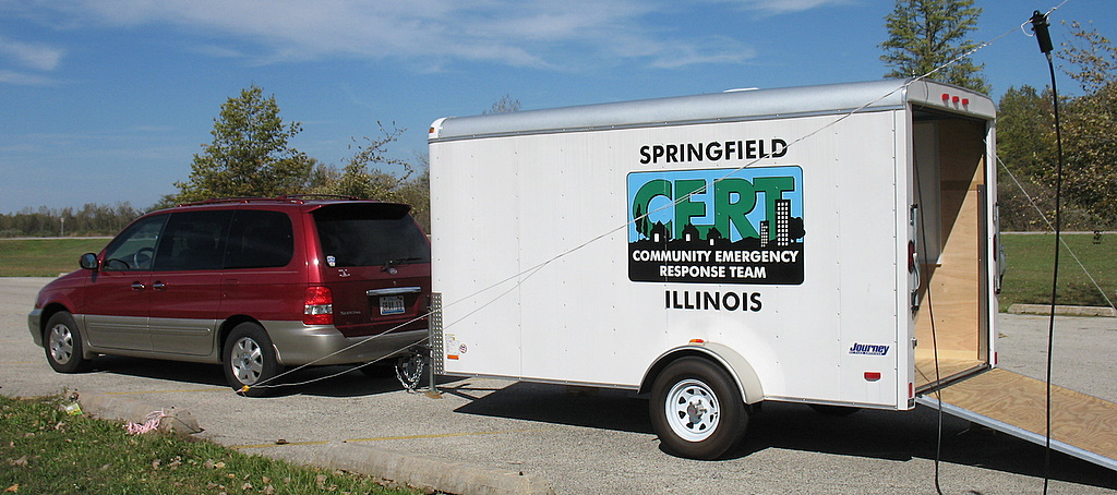 Lake Sangchris Community Emergency Response Team Illinois QSO PArty